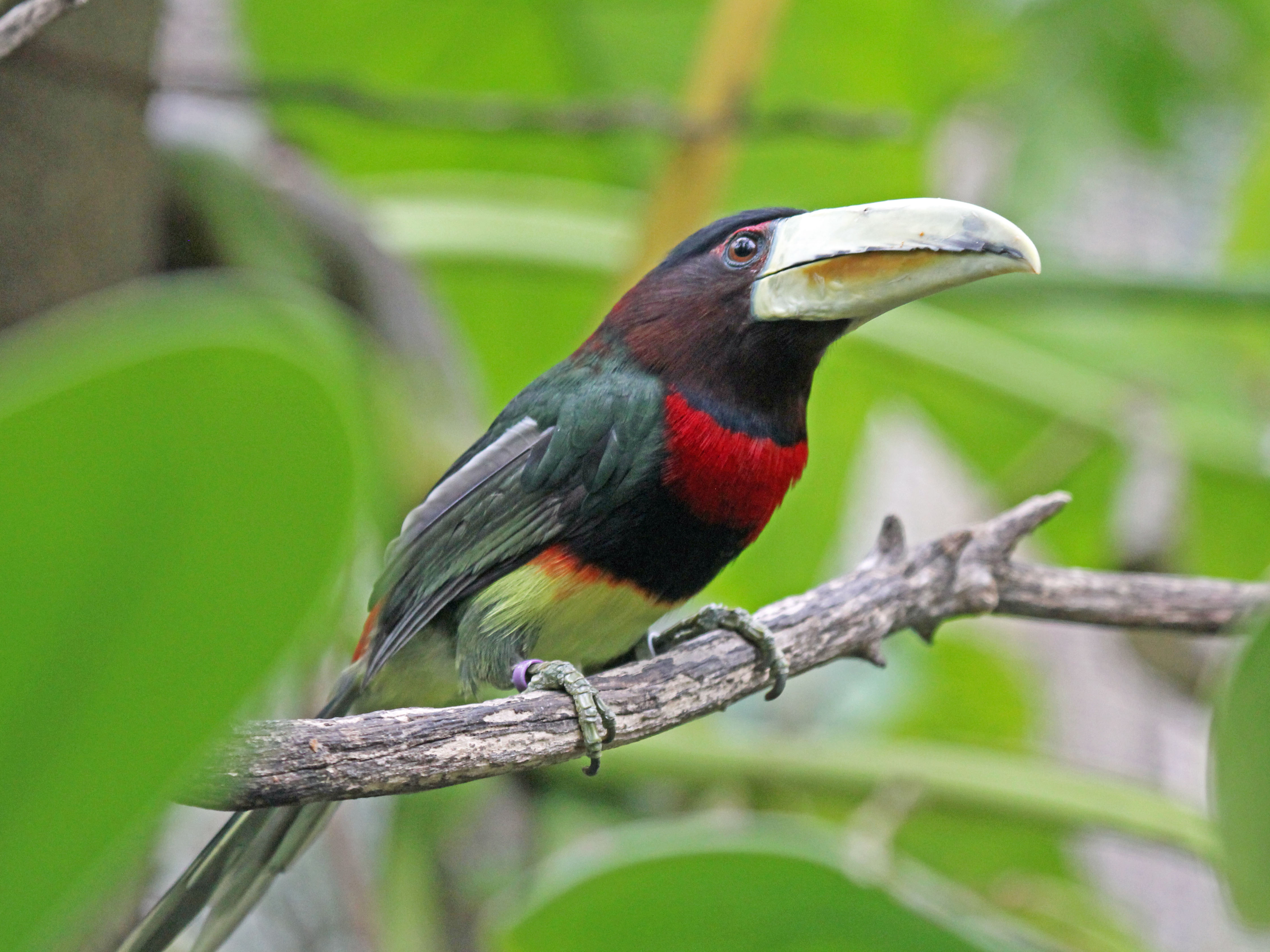 Ivory-billed Aracari (Pteroglossus azara) - San Diego Zoo